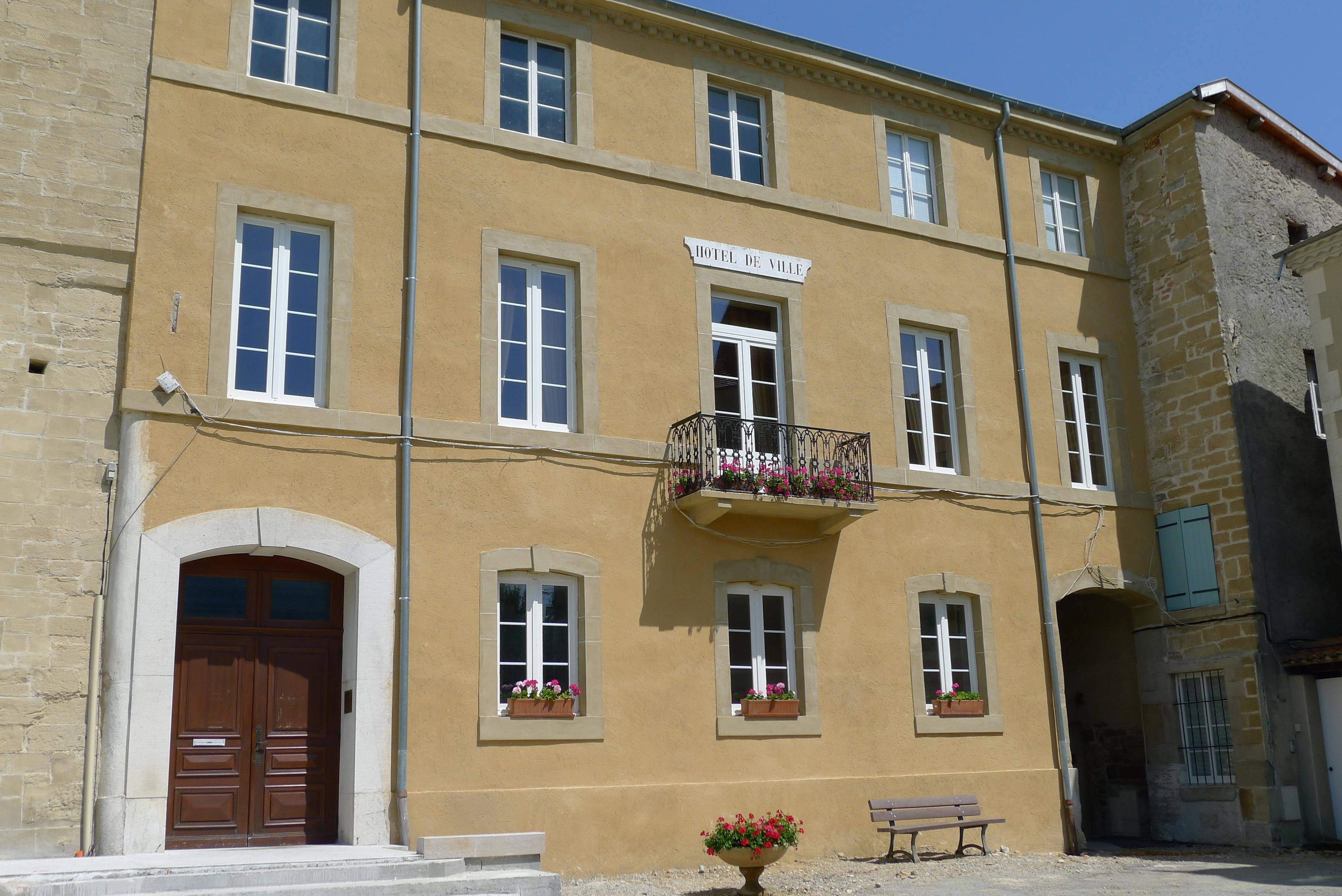 Town hall of Le Grand Serre - Drôme - France